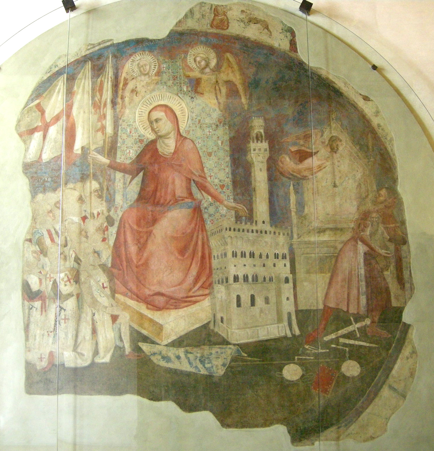 The Expulsion of the Duke of Athens by Andrea Orcagna, detached fresco, in Palazzo Vecchio